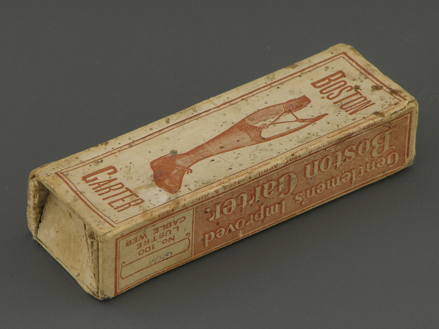 Boston Garter Elastic bands cardboard box beginning of 20th century